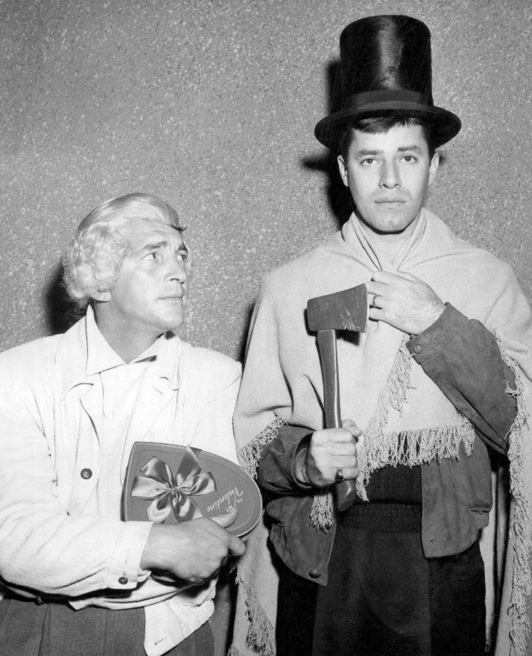 Photo of Dean Martin and Jerry Lewis from The Colgate Comedy Hour.